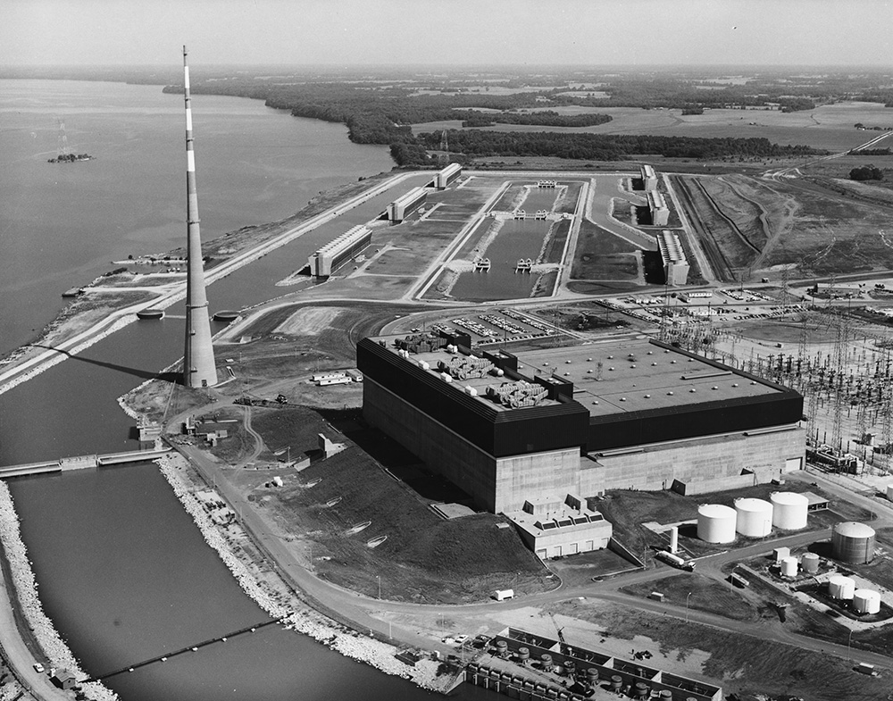 Browns Ferry Nuclear Power Plant when it first opened in 1974.